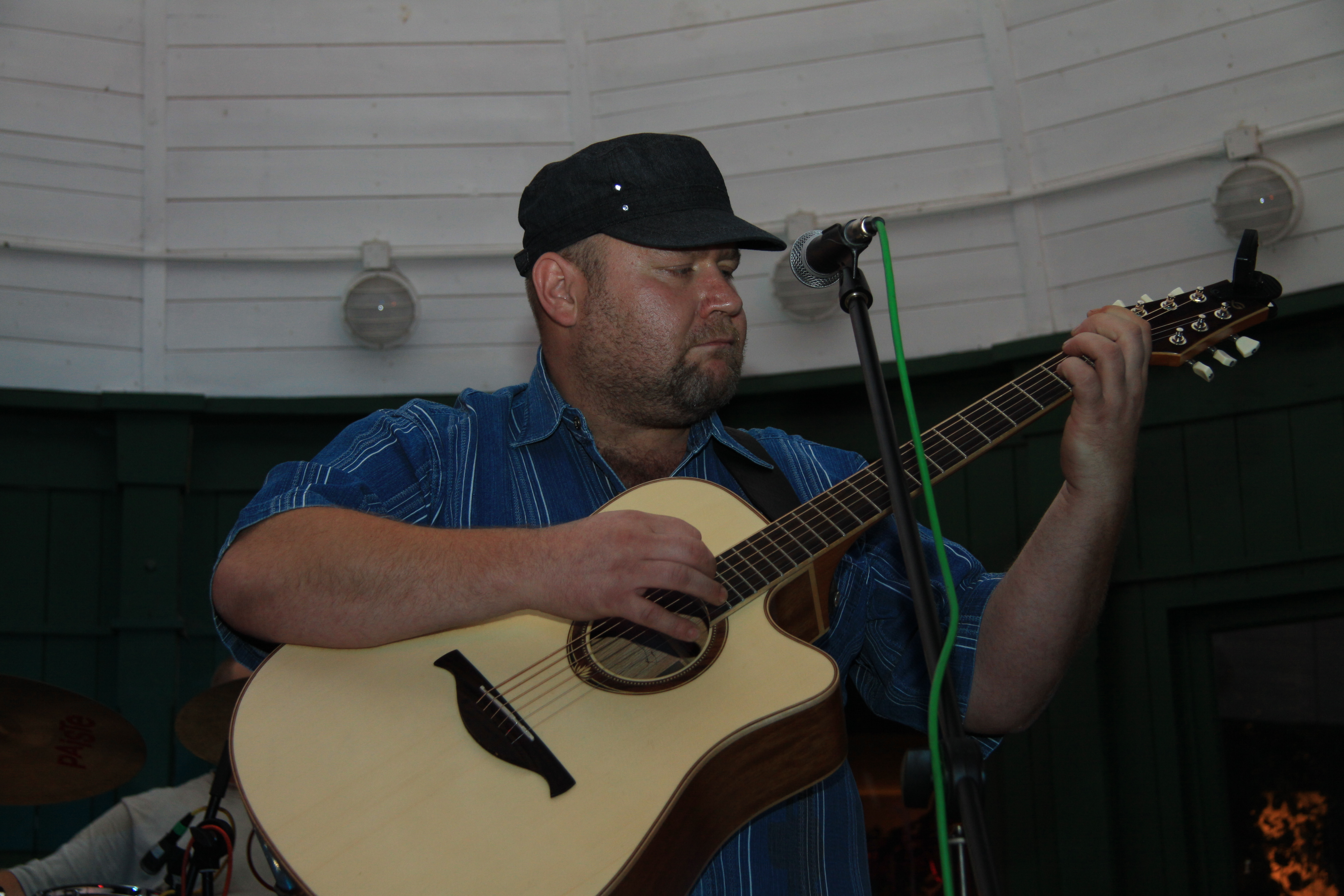 Czech music band Papouškovo sirotci during Písek's celebration "Dotkni se Písku" in 2011, Písek District, Czech Republic - Google Maps - Google Earth Personality rights warning Although this work is freely licensed or in the public domain, the person(s) shown may have rights that legally restrict certain re-uses unless those depicted consent to such uses. In these cases, a model release or other evidence of consent could protect you from infringement claims.